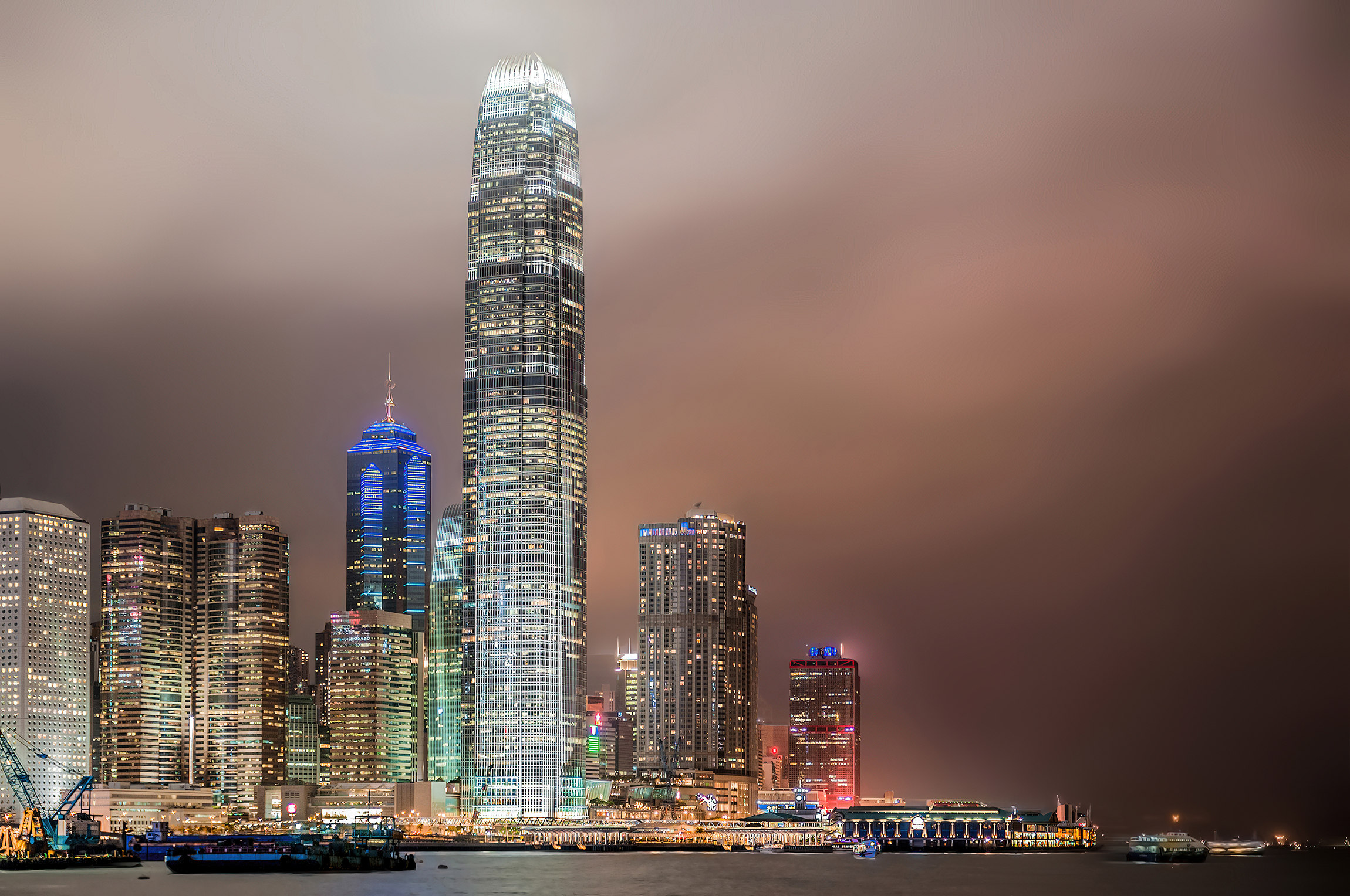 Hong Kong skyscrapers in a night of typhoon